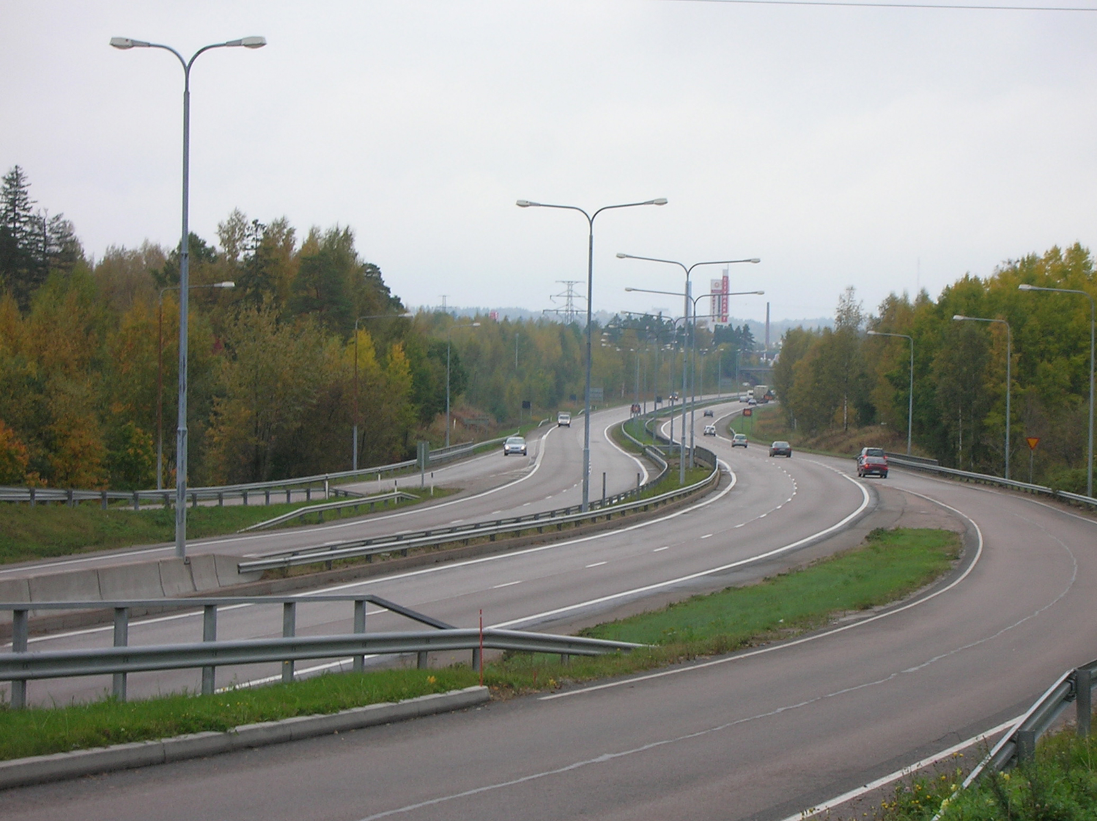 National road 7 (E18) in Kotka, Finland